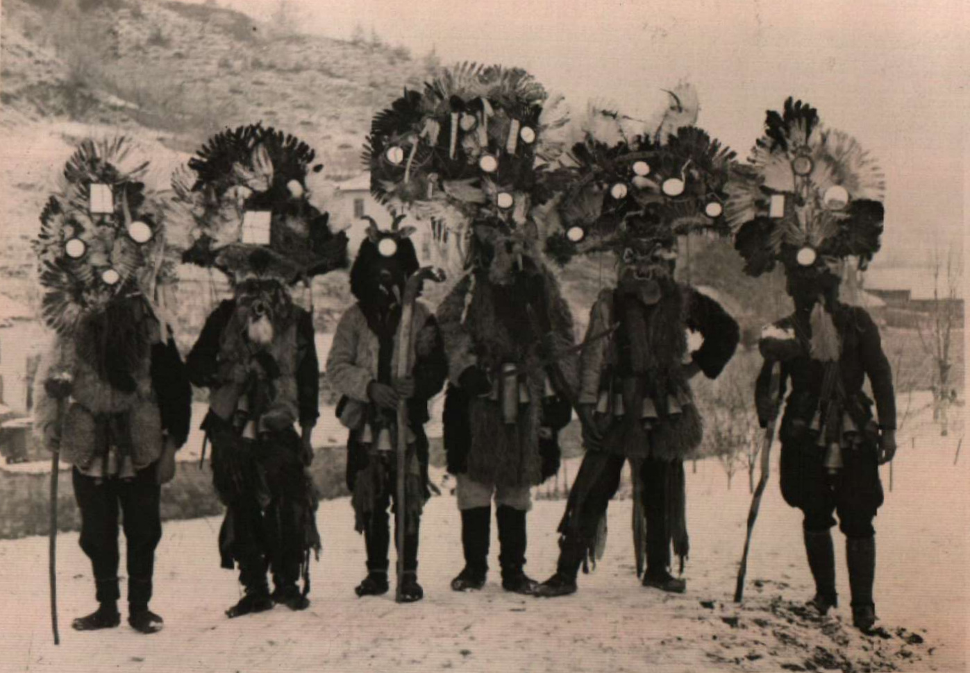 Kukeri from Bulgaria